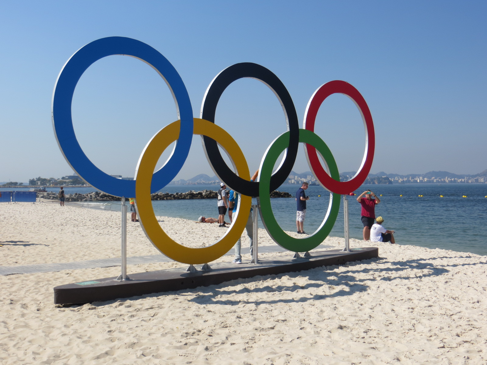 Guanabara Bay - a venue of competitions in sailing at the Summer Olympic Games 2016 in Rio de Janeiro